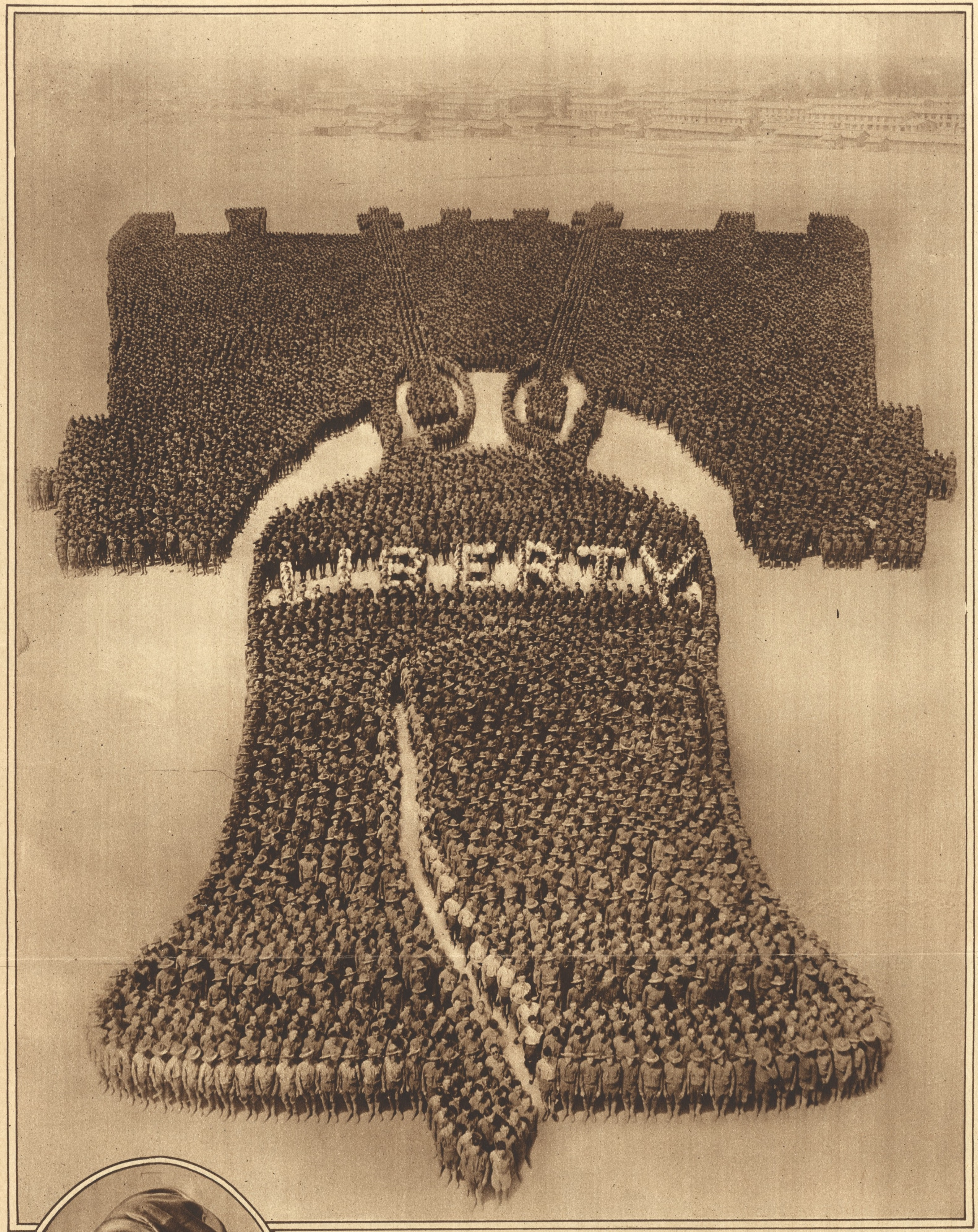 THE LIVING LIBERTY BELL, COMPOSED OF 25,000 OFFICERS AND MEN IN TRAINING AT CAMP DIX, WRIGHTSTOWN," N. J. This Remarkable Photograph Was Taken on the Afternoon of June 20, Last, When the Entire Cantonment Personnel Was Assembled On the Drill Field in Historic Formation to Which Had Been Applied, with Mathematical Precision, the Laws of Perspective. These Are the Bell's Dimensions in Feet: Length of Beam at Top, 368, Width of Bell at Bottom, 64, Length of Each Bolt, 395, Width of Beam, Top to Bottom, 435, Total Length, Top to Bottom, 580. Due to Effecting a I Correct Perspective, There Are More Than Eleven Times as Many Men in the Beam as in the Bell Itself. (Mole & Thomas)